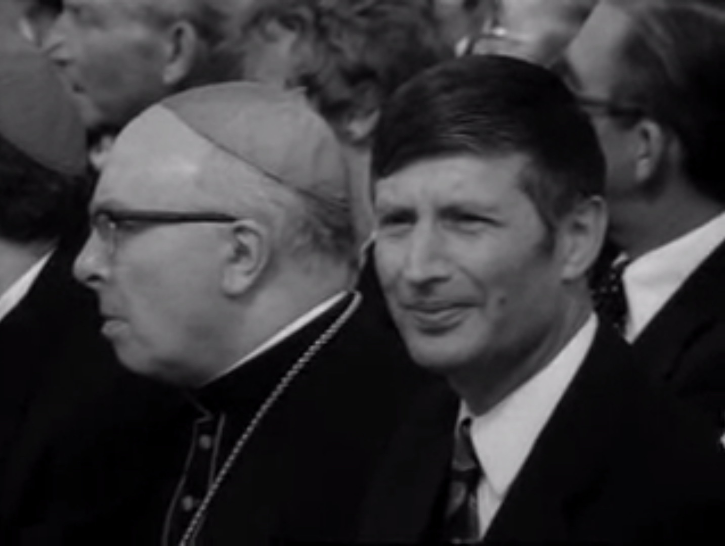 Archbishop Johannes Willebrands and minister of justice Dries van Agt watching the final procession of the Heiligdomsvaart 1976 at Vrijthof square in Maastricht, Netherlands. The reliquary procession on Sunday 5 September 1976 was the closing ceremony of a 10-day religious festival that dates back to the Middle Ages and is celebrated in Maastricht every seven years. This is a still from a film item for the Dutch Polygoonjournaal uploaded to Wikimedia Commons by Het Nederlands instituut voor Beeld en Geluid on 15 September 2014.